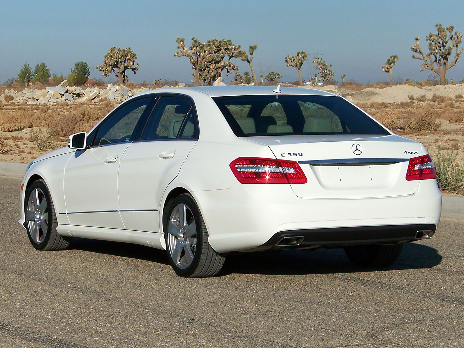 2010 Mercedes-Benz E 350 4Matic sedan, photographed in USA.